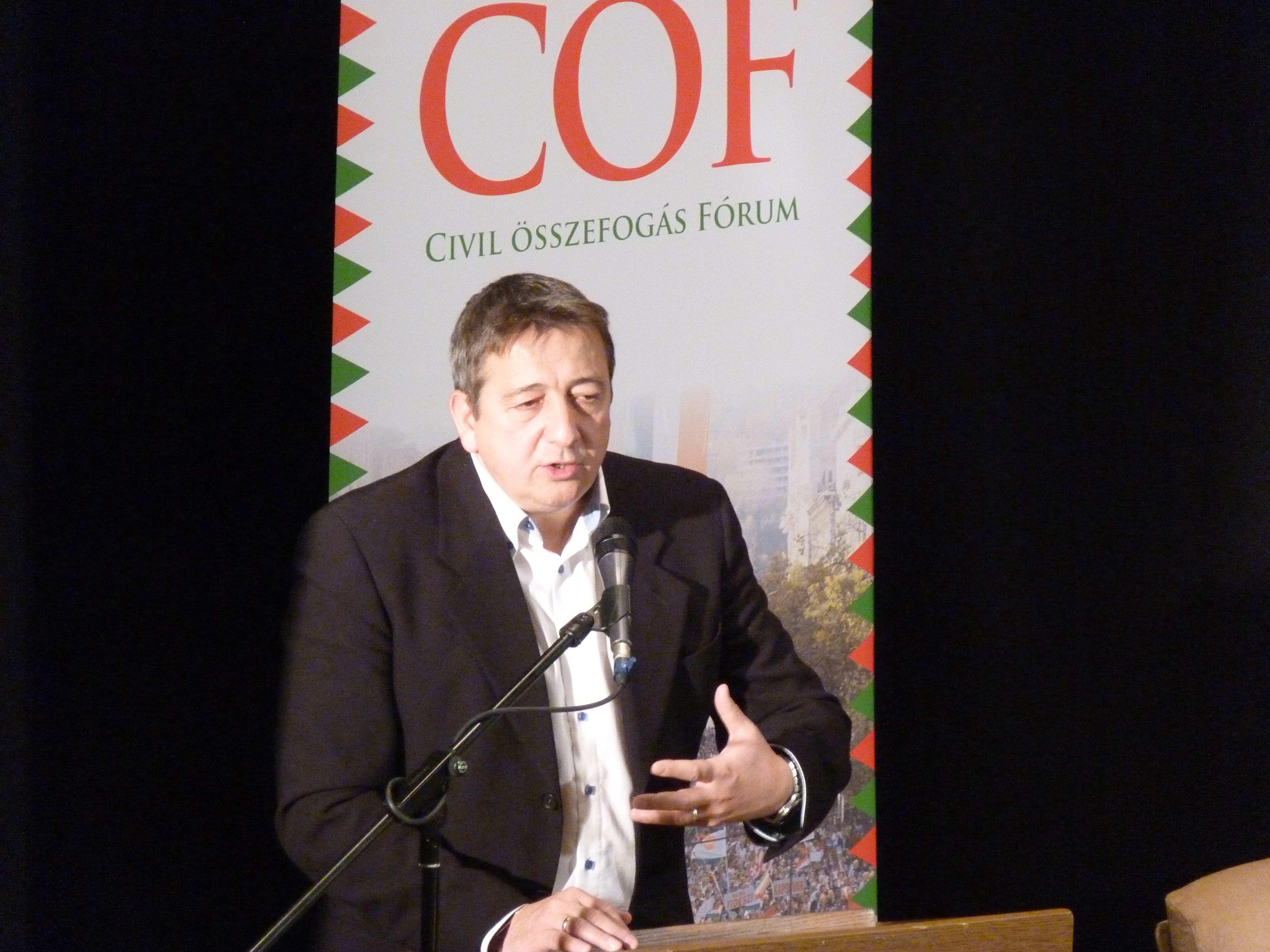 Taken on the 14th of March, 2016. Szent Margit Gimnázium, Budapest, Hungary. Bayer Zsolt. Civil Összefogás Fórum.